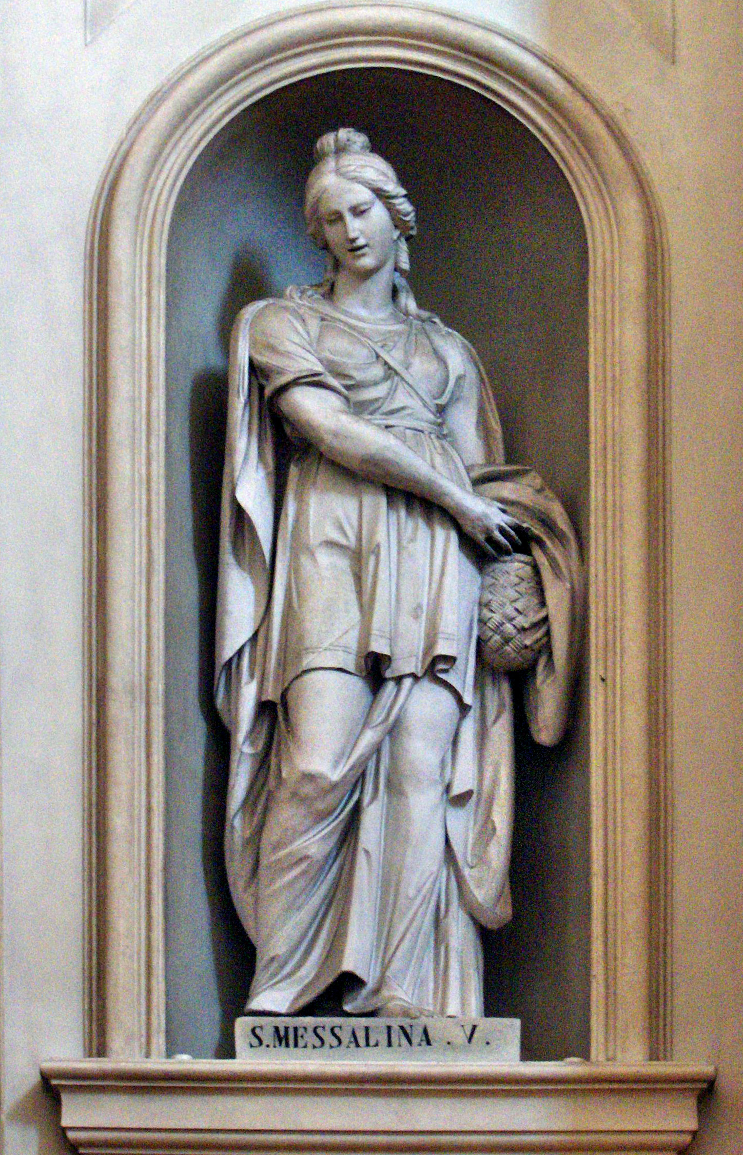 Statue of St. Messalina (a nun who had received the veil from Feliciano) in the Cathedral of San Feliciano, Foligno, Italy